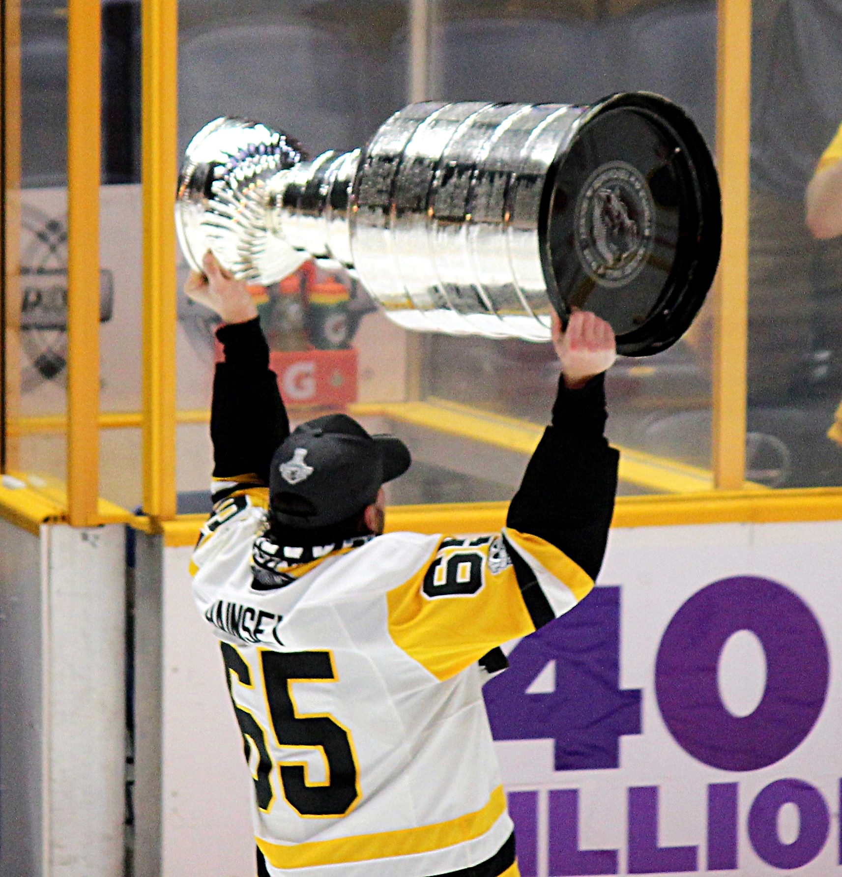 Pittsburgh Penguins defenseman Ron Hainsey skates with the Stanley Cup following the Penguins game 6 victory over the Nashville Predators, June 11, 2017, at Bridgestone Arena in Nashville, TN.